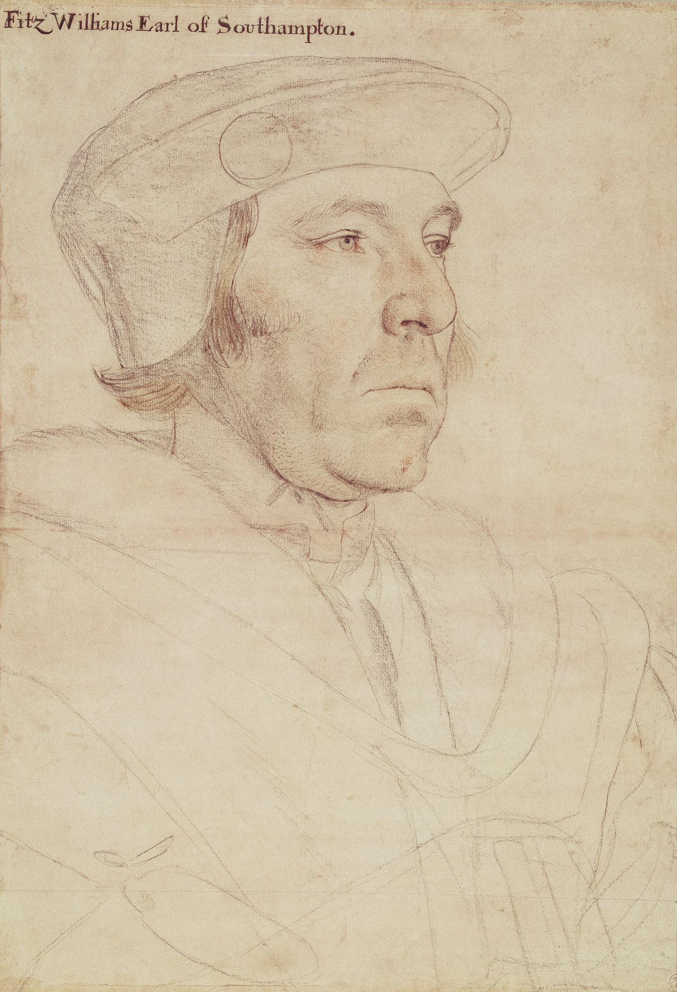 Portrait of William FitzWilliam, 1st Earl of Southampton. Black and coloured chalks, metalpoint, on pink-primed paper, 38.8 × 27.4 cm, Royal Collection, Windsor Castle. The retracing of outlines with metalpoint seems to have been done when transferring the design to a panel for painting. No painting of FitzWilliam by Holbein himself survives, but a copy of a full-length portrait of the sitter, purporting to date from 1542, is in the Fitzwilliam Museum, Cambridge. Art historian K. T. Parker, in his study of the Windsor drawings, judged the sketch as "one of the most impressive and purest of the series" (Parker, p. 54). William FitzWilliam, 1st Earl of Southampton (c. 1490–1542), was Lord Privy Seal in 1553, Lord High Admiral, 1536–40, and became Earl of Southampton in 1537.